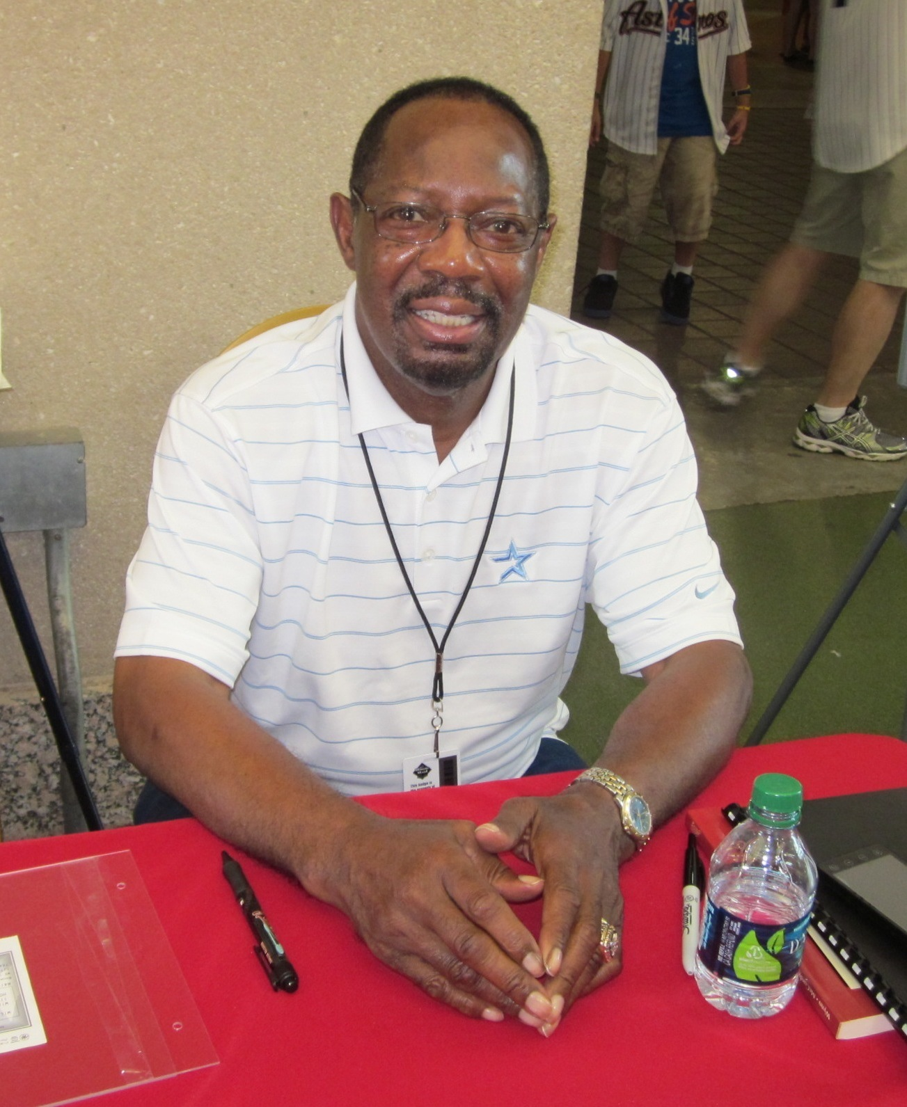 1361. At Minute Maid Park, Houston, Jimmy Wynn signs book, autographs. Image by Gary P Smith, July, 2011.